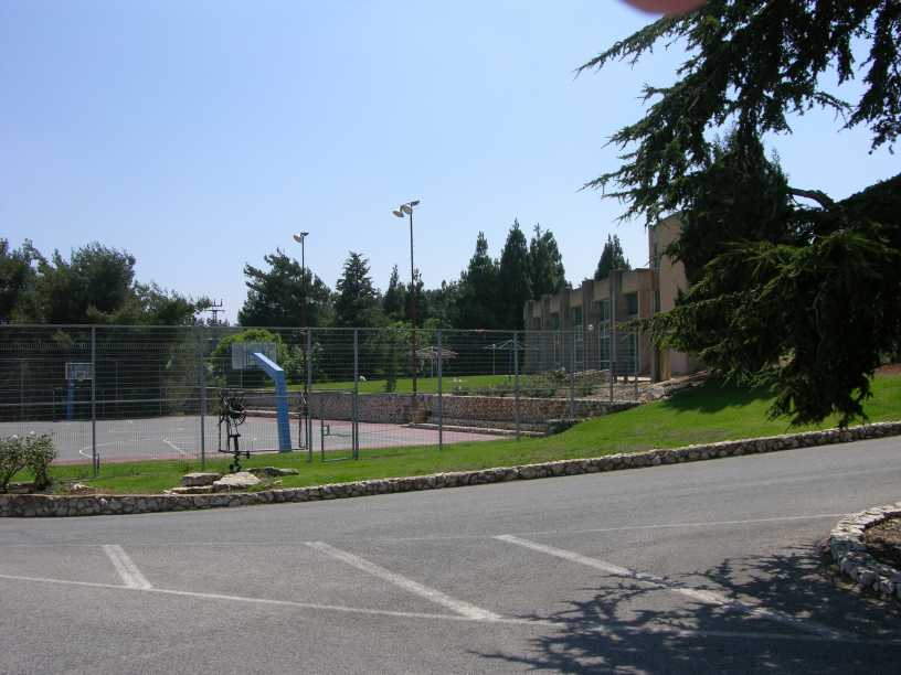 a sport facility of Misgav Am